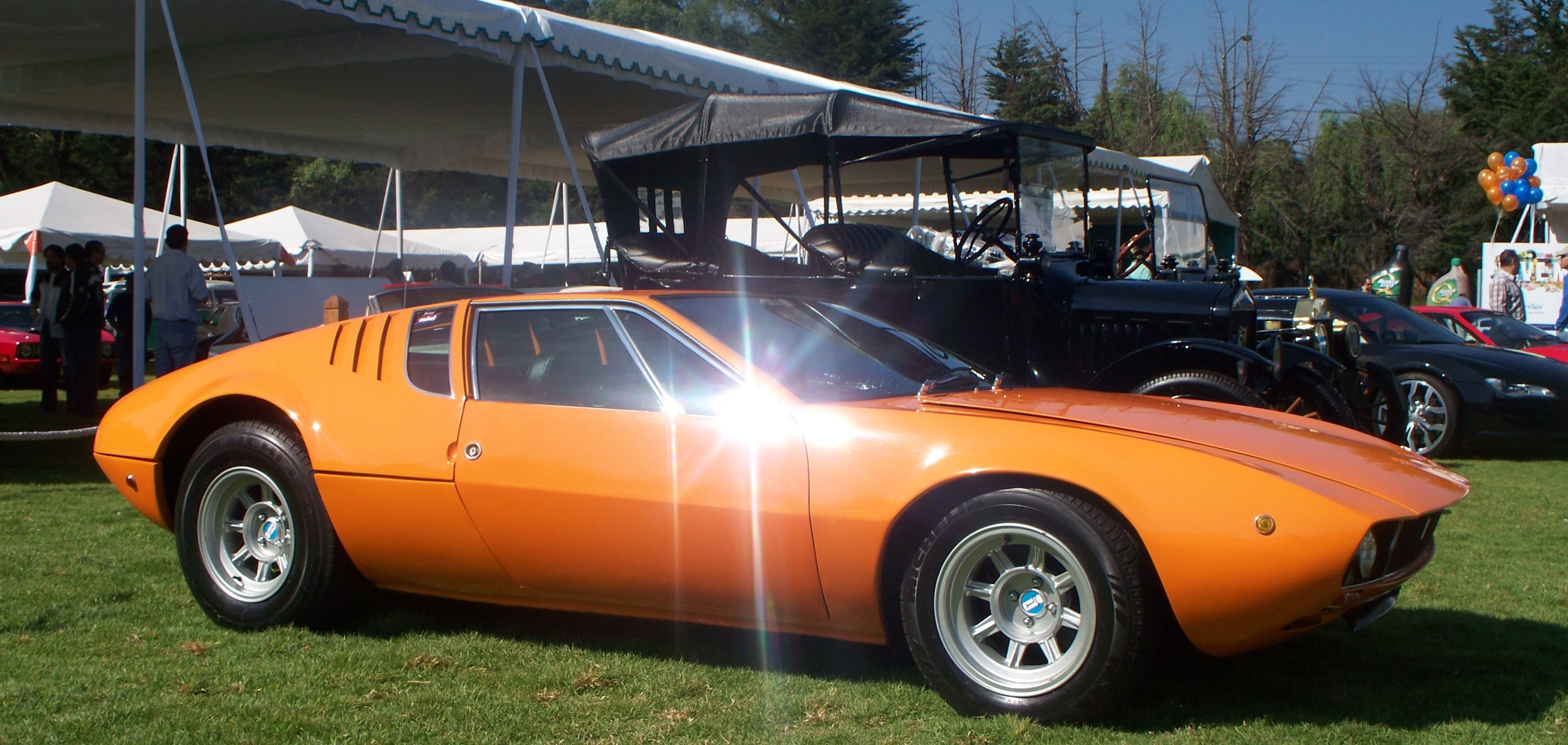 DeTomaso Mangusta 1979 at Elegance Show in Mexico 2010